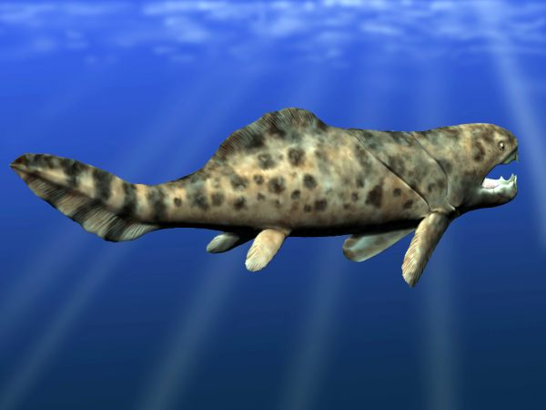 Dunkleosteus terrelli